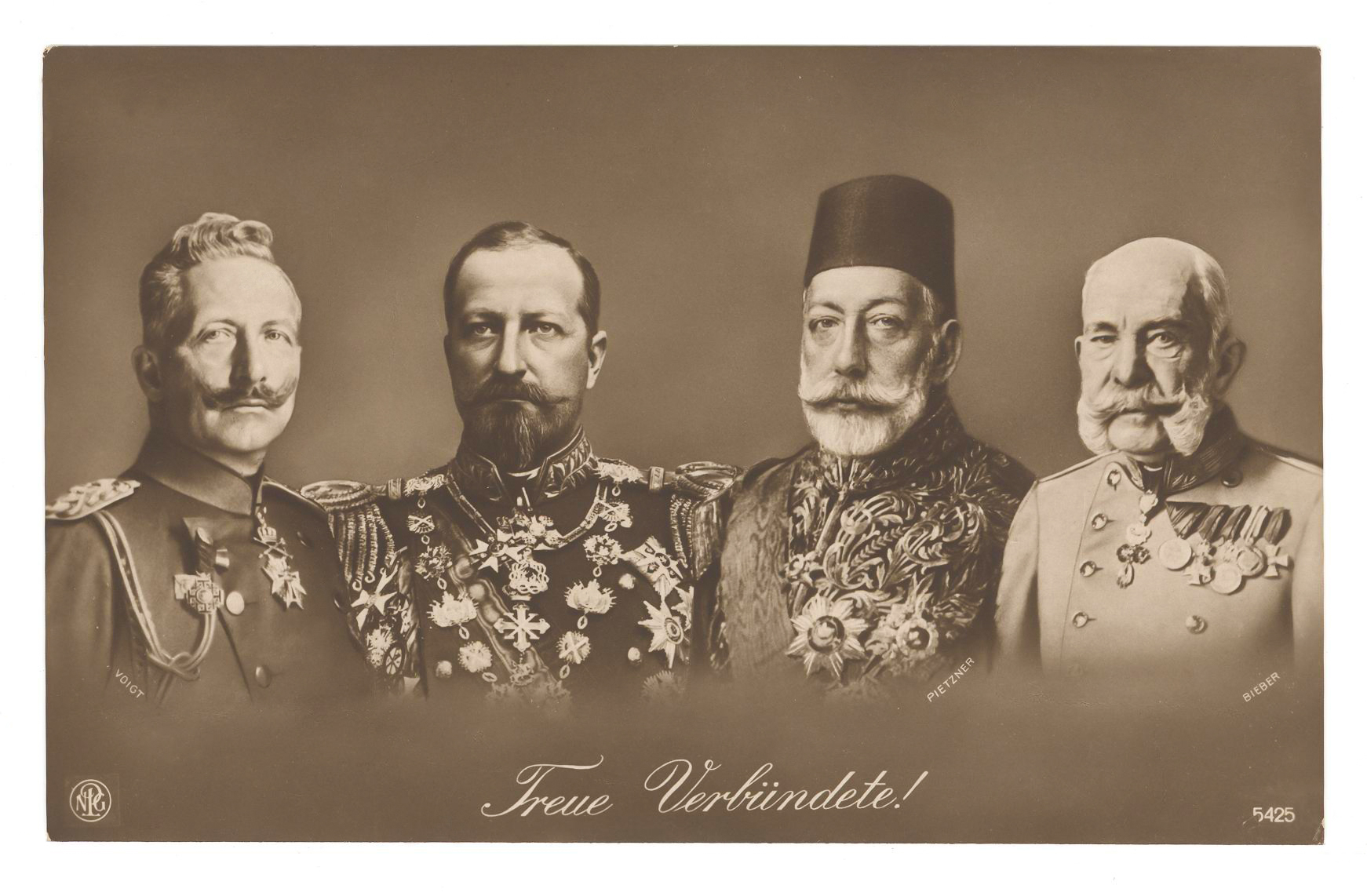 Postcard from the first world war, caption: Treue Verbündete [True allies]